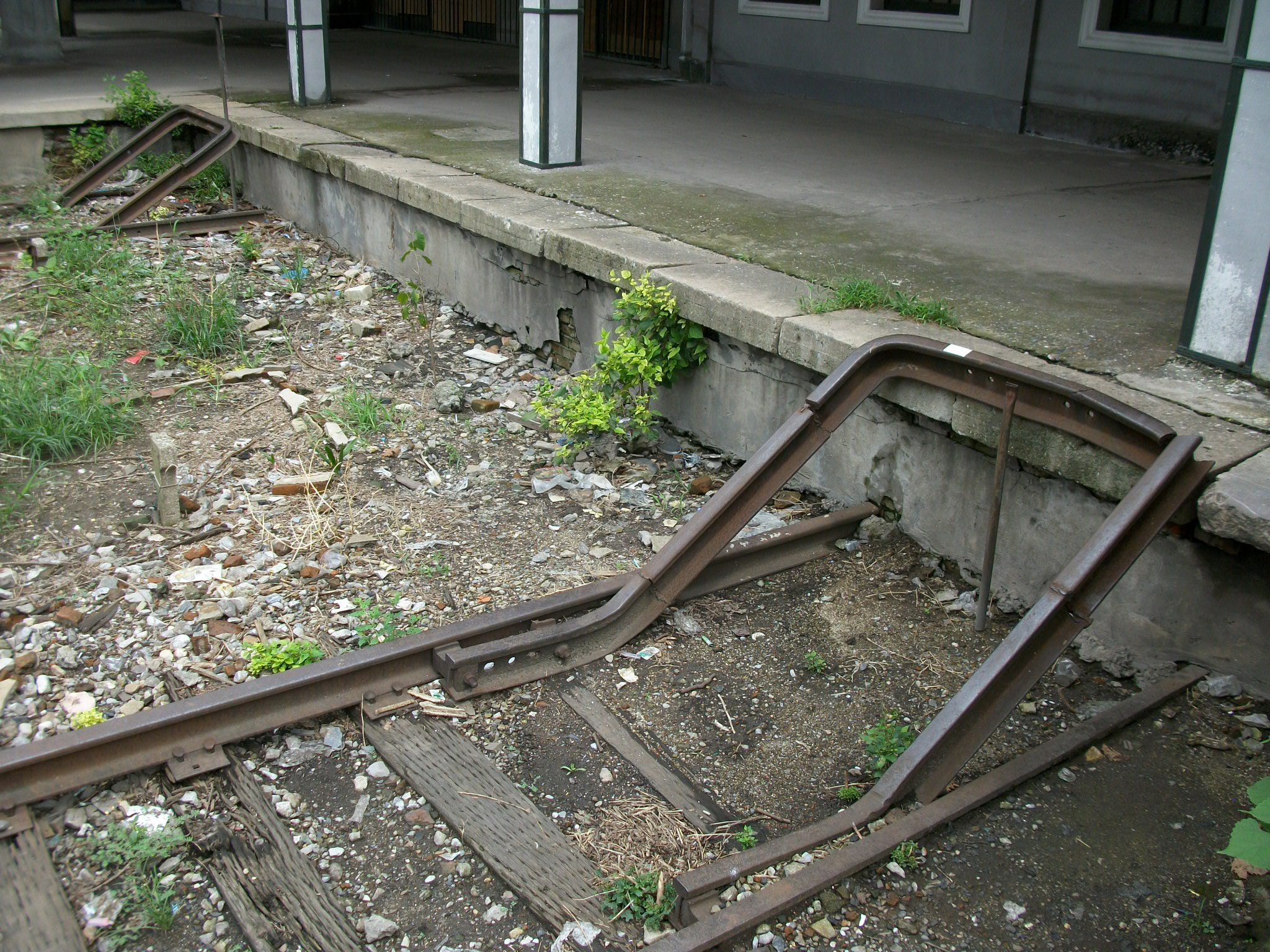 Bumpers in Nanjingbei Station.